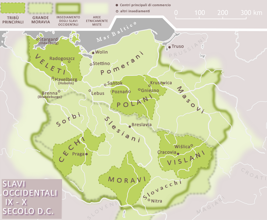 West Slavs 9th–10th centuries